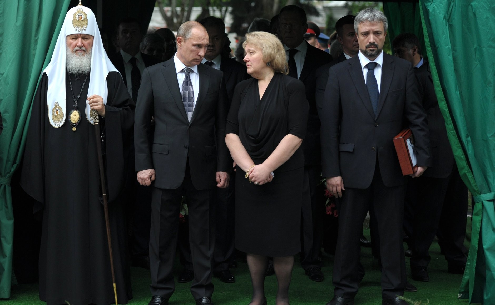 Farewell to Yevgeny Primakov